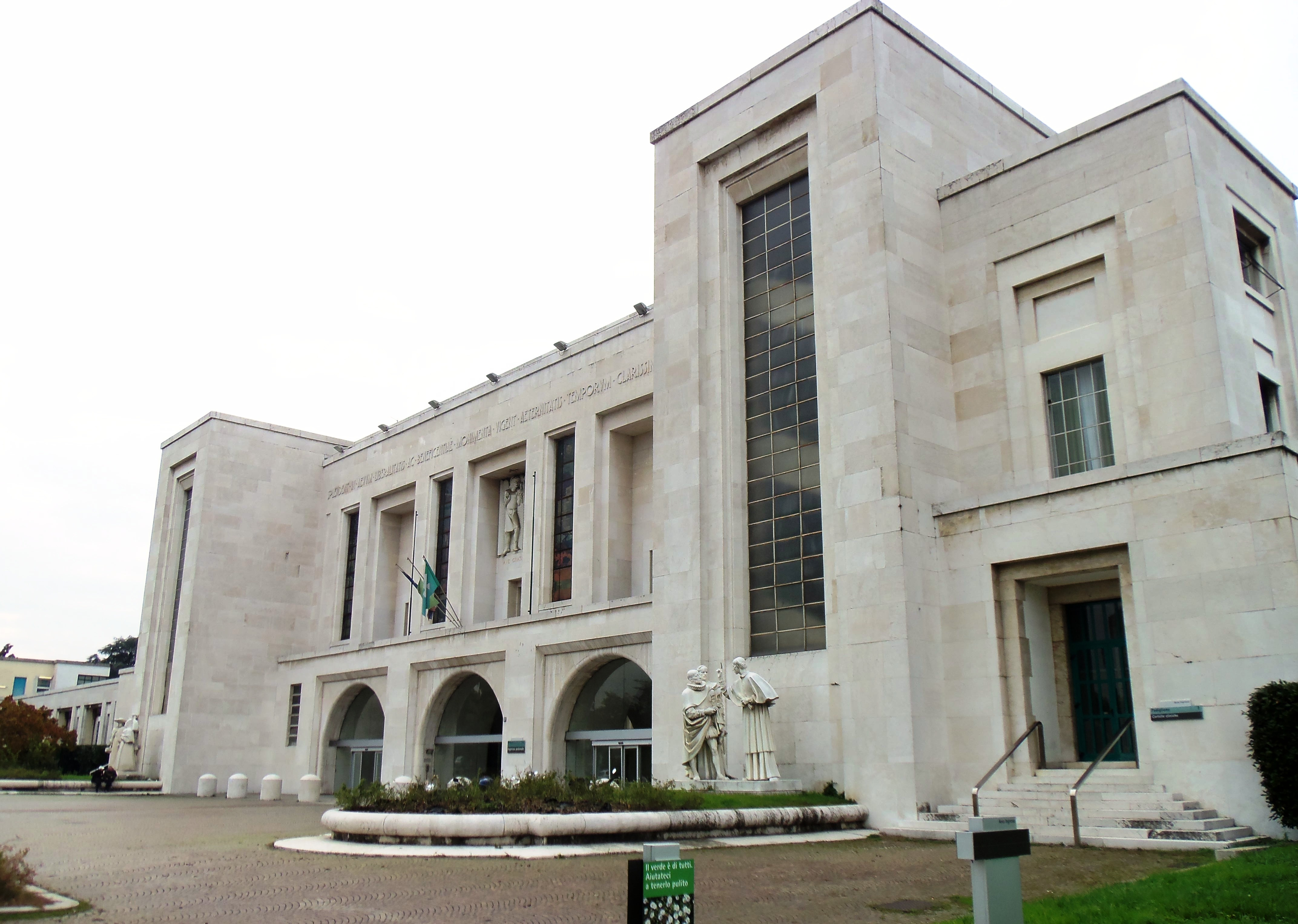 Niguarda Hospital (1932-1939)